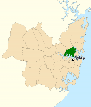 This image incorporates data that is: © Commonwealth of Australia (Australian Electoral Commission) 2009 Division of North Sydney 2010